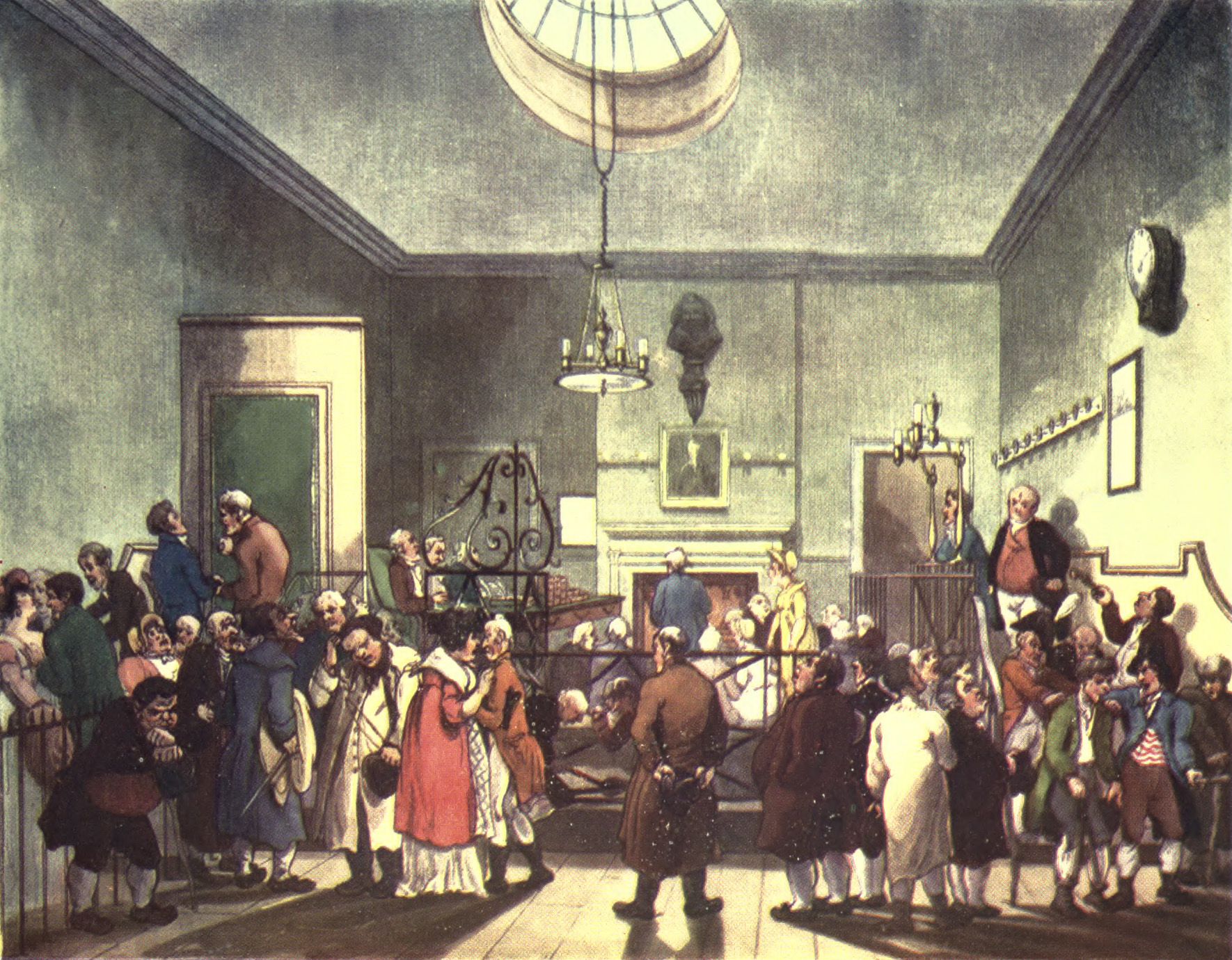 Bow Street Office